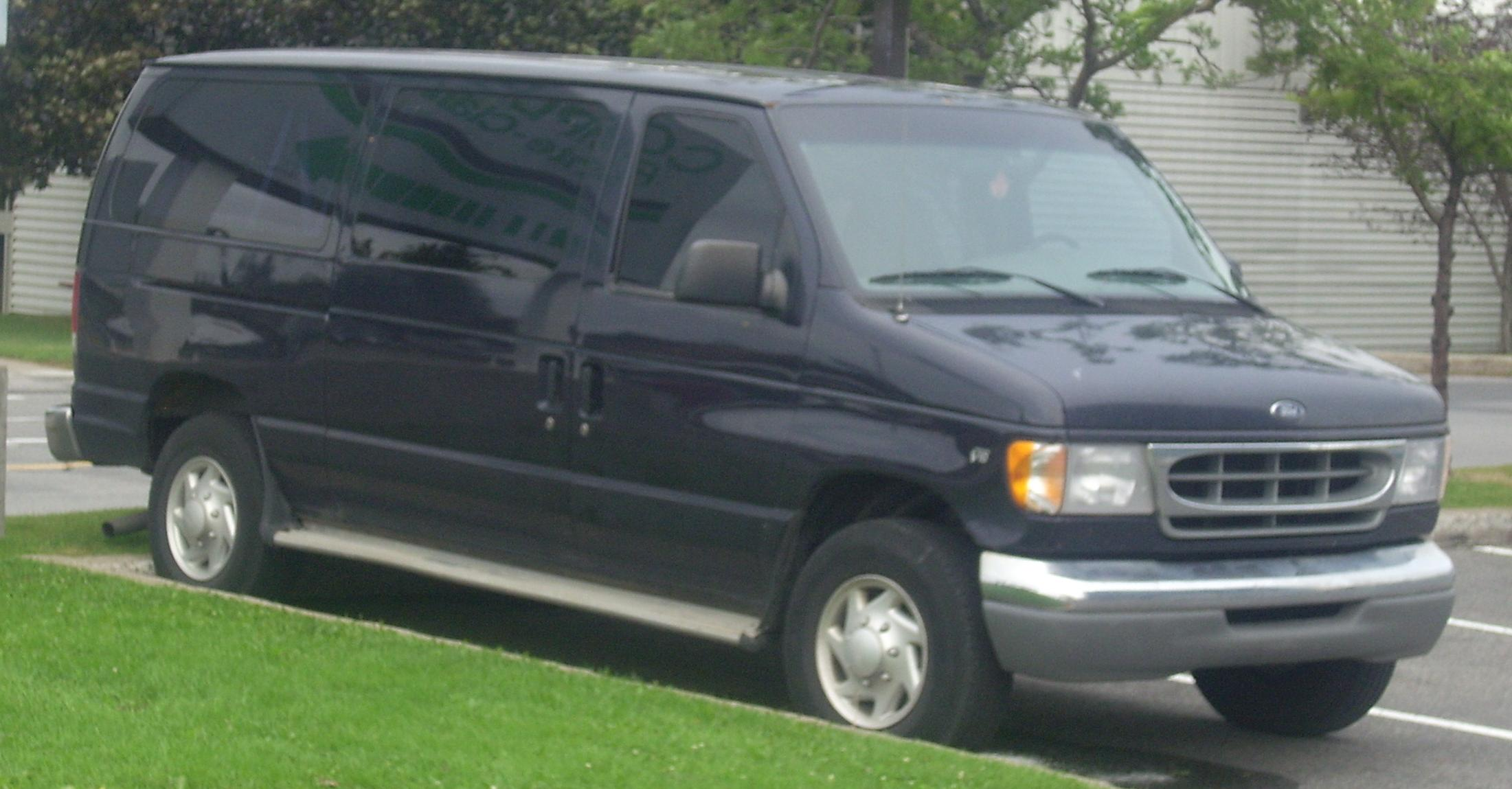 1997-2002 Ford E-Series photographed in Montreal, Quebec, Canada.